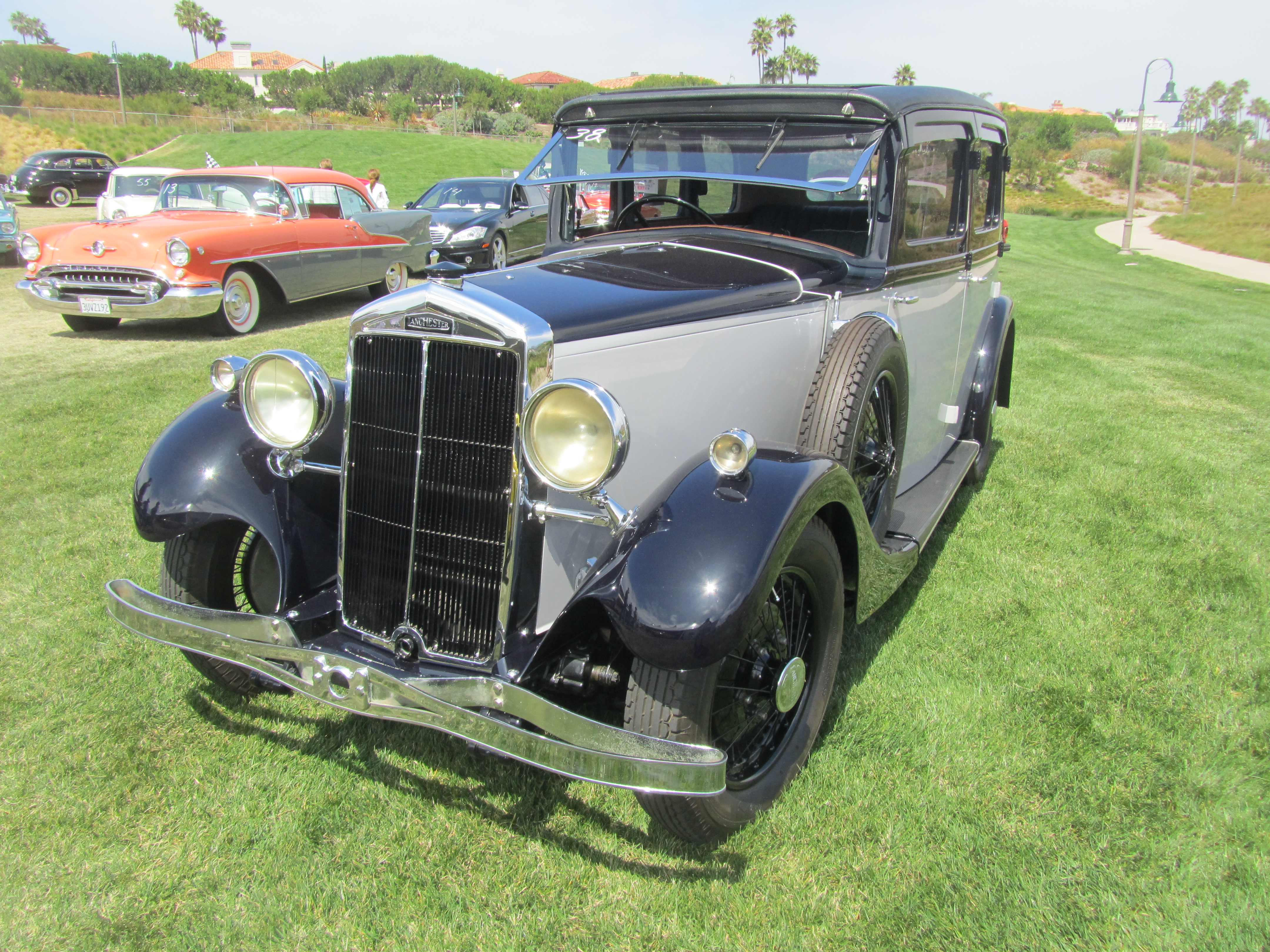 Lanchester 15/18 2504 cc four-door, six-light standard saloon The car sports stylish light and dark blue two-toned coachwork, black top and wire wheels and is powered by a 2.5 liter straight six coupled with a four-speed Wilson pre-select transmission. The current owner purchased it nearly 37 years ago and put over $100,000 into restoring it.